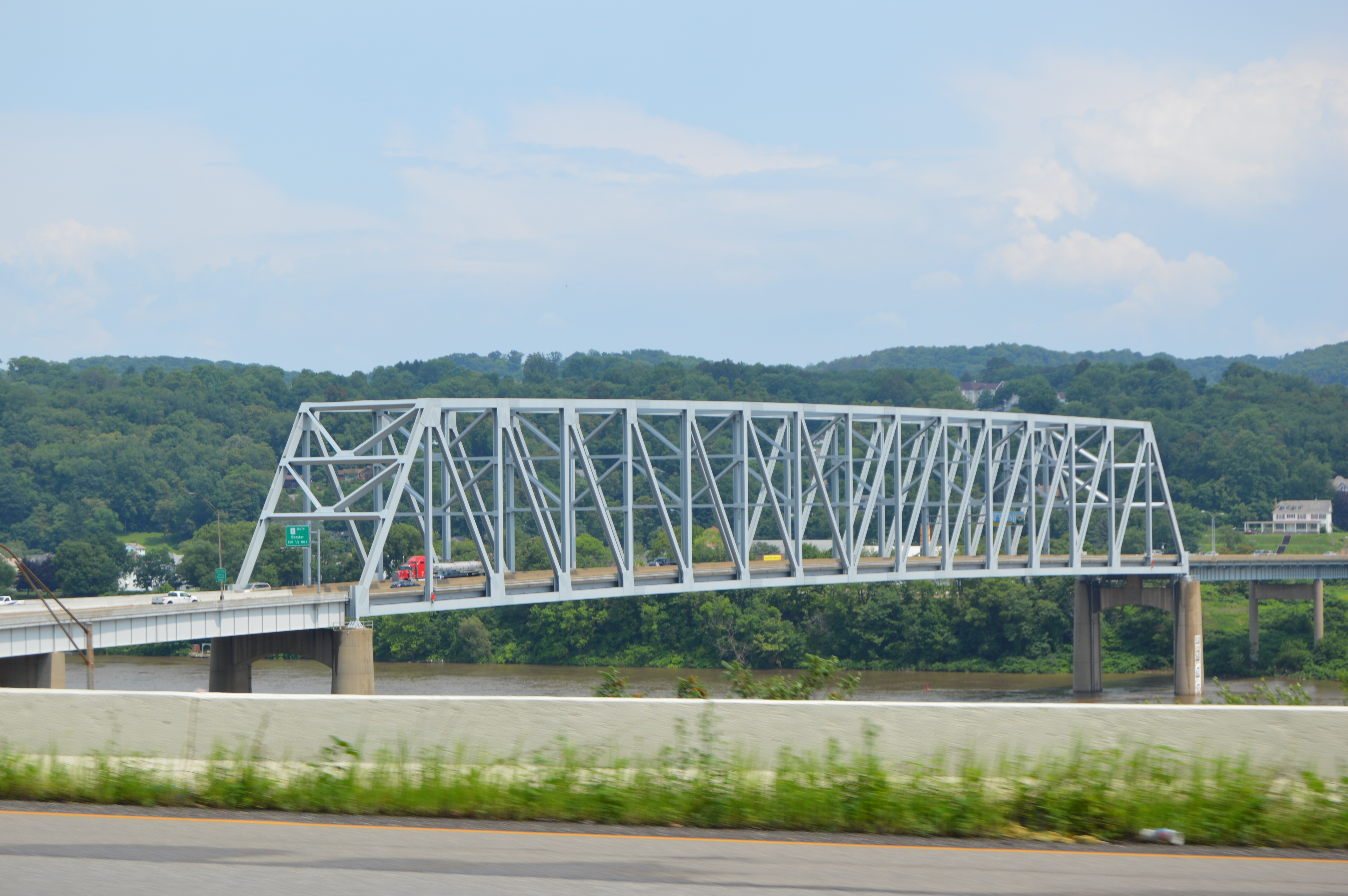 Distant view from Ohio State Route 39 of the Jennings Randolph Bridge, which carries U.S. Route 30 over the Ohio River between East Liverpool, Ohio and Chester, West Virginia. It was built in 1977.